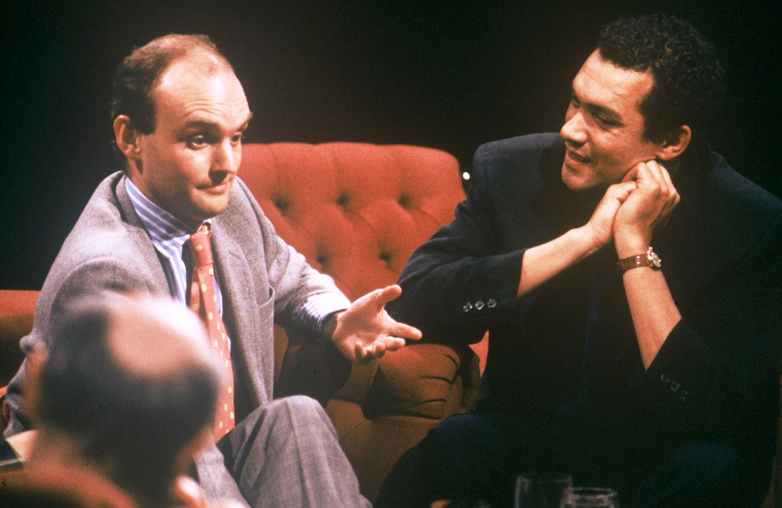 Nicholas Coleridge and Bruce Oldfield appearing on TV series After Dark in 1988